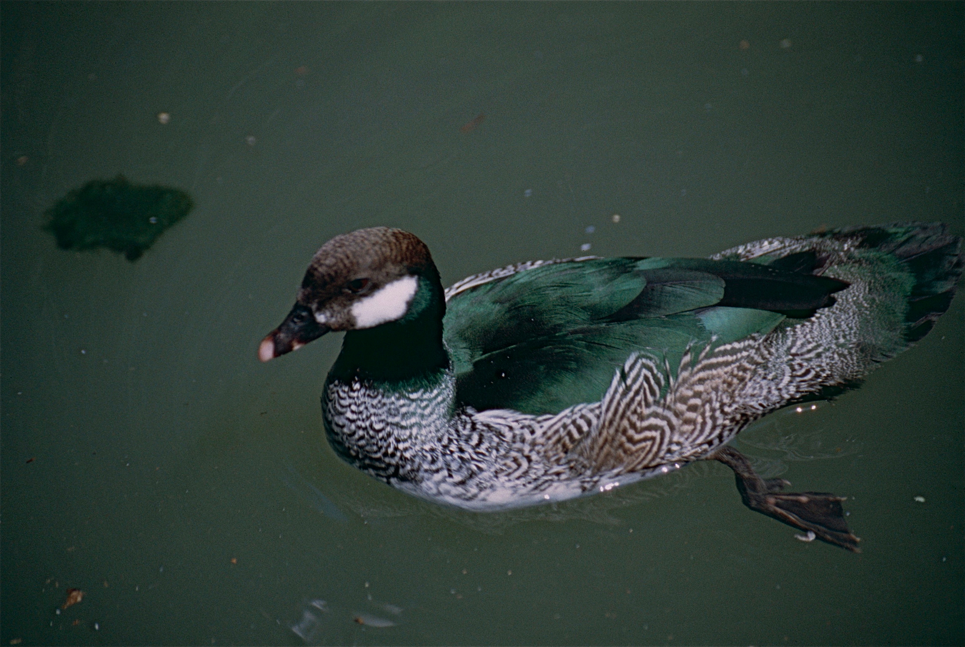 Rainforest Habitat, Port Douglas, North Queensland, AUSTRALIA Scanned Slide from Nov 2000